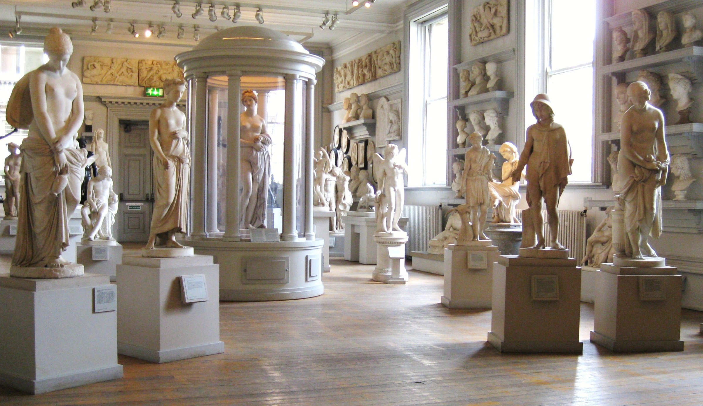 Sculpture gallery in the Walker Art Gallery, Liverpool. The centre display in a case is the Tinted Venus, by John Gibson, circa 1851-6.